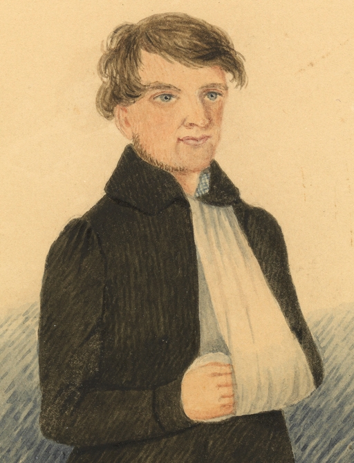 Portrait of bushranger Lawrence Kavenagh in the dock at court.